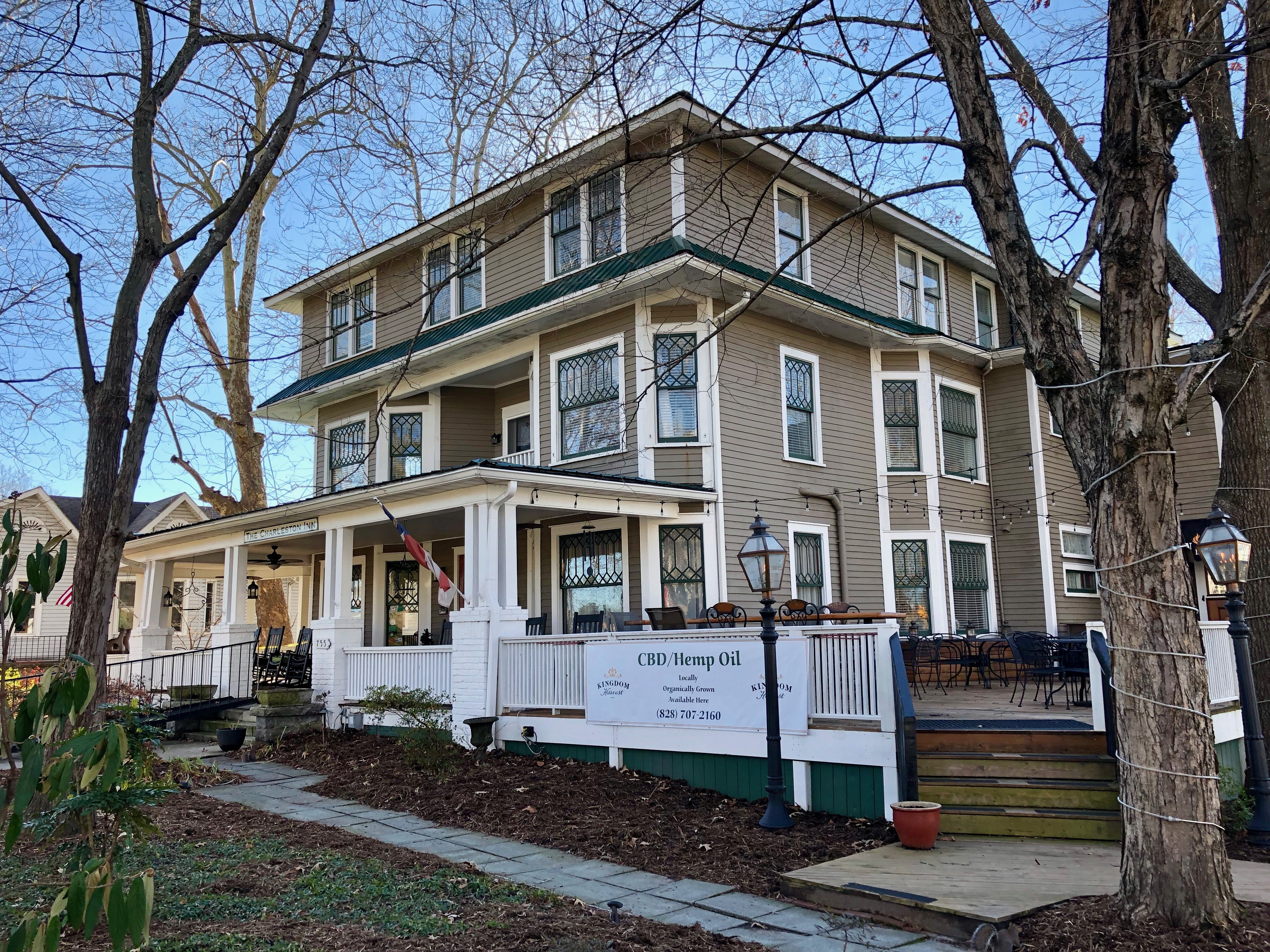 Chewning House, also known as the Charleston Inn, McCurry Hotel, and Claddagh Inn, is located in Hendersonville, North Carolina and was constructed in the early 20th Century. It was listed on the National Register of Historic Places in 1989.